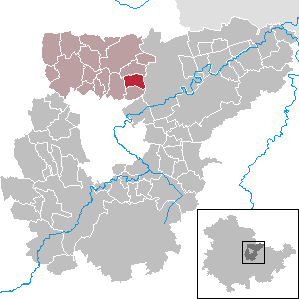 Sachsenhausen in Thuringia - District Weimarer Land